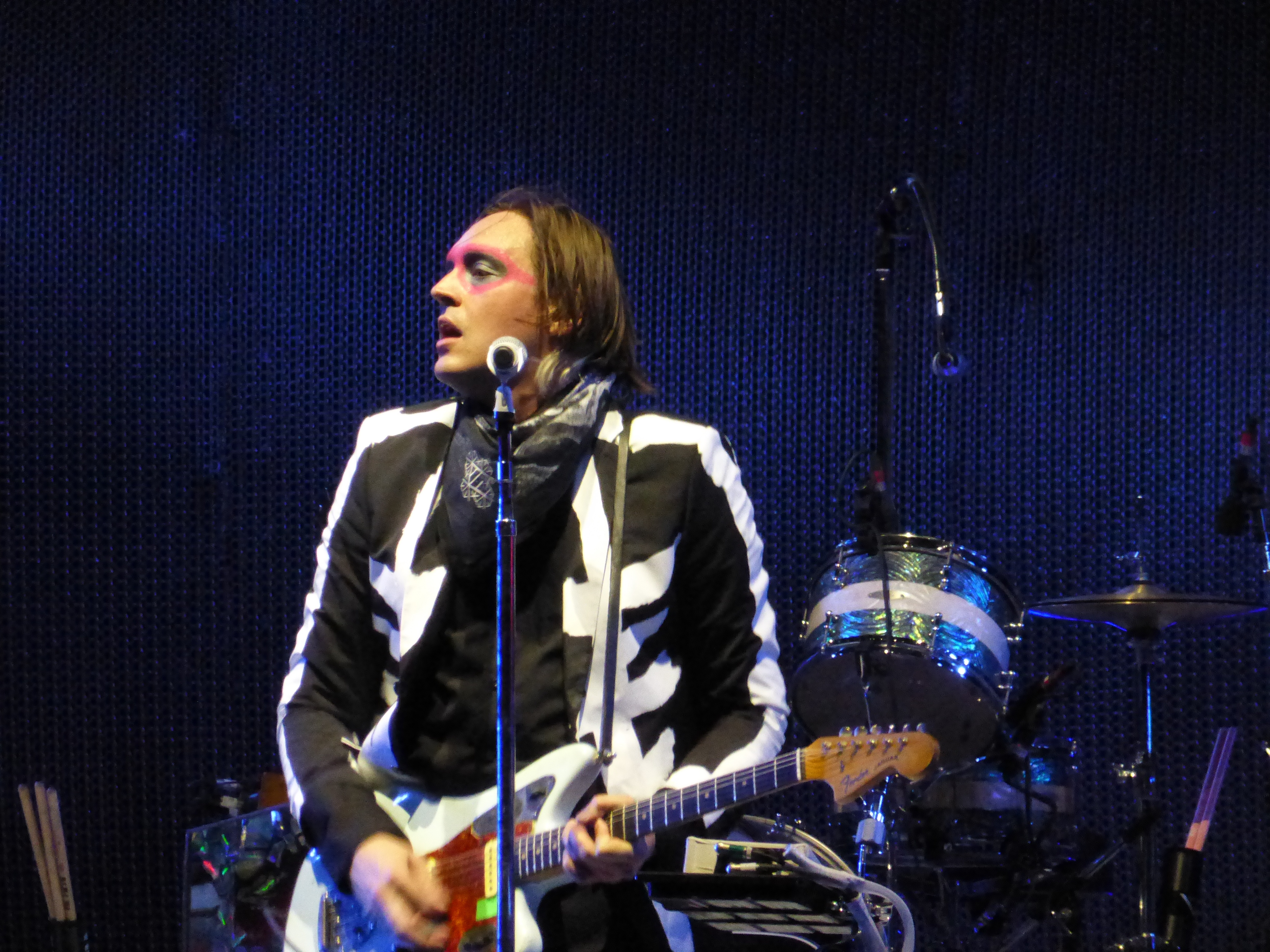 performing at Coachella 2014